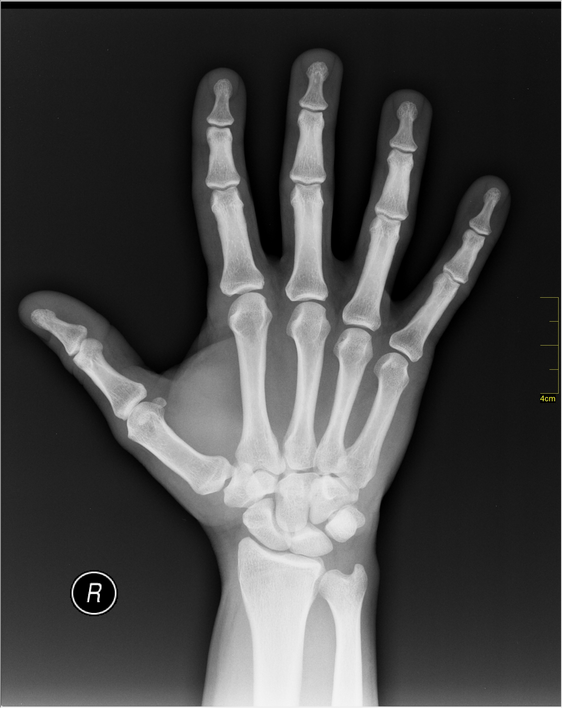 Medical X-rays.